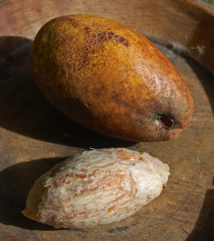 Mangifera kemanga fruit and seed. Bogor, West Java, Indonesia